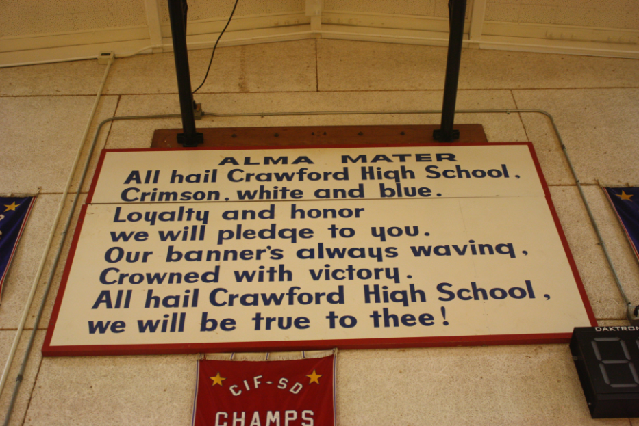 Picture of the CHS alma mater